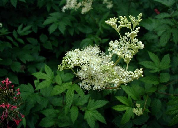 Filipendula ulmaria: Flowers and leaves.